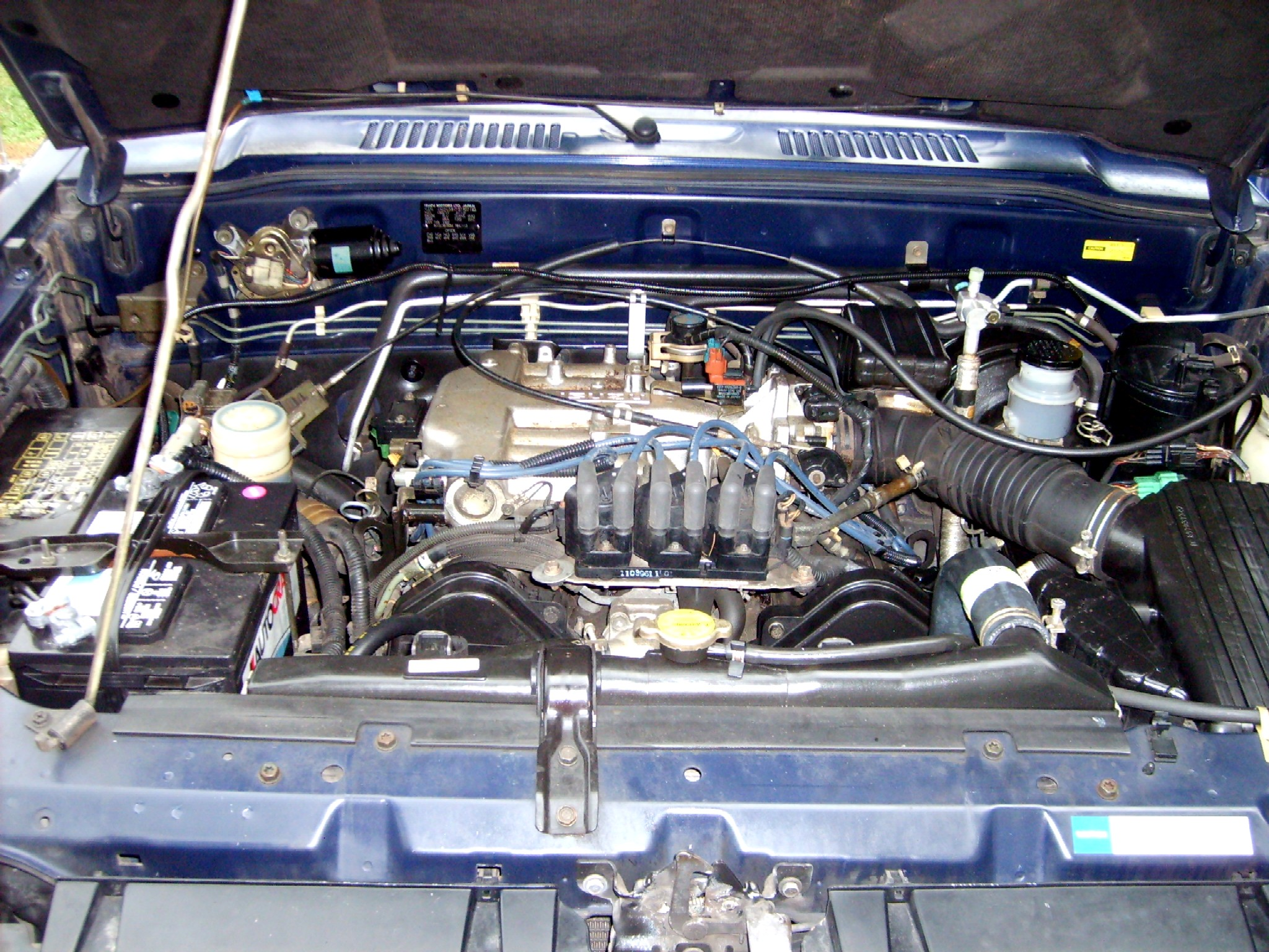 Isuzu 6VD1 Engine as pictured in my 1995 Trooper